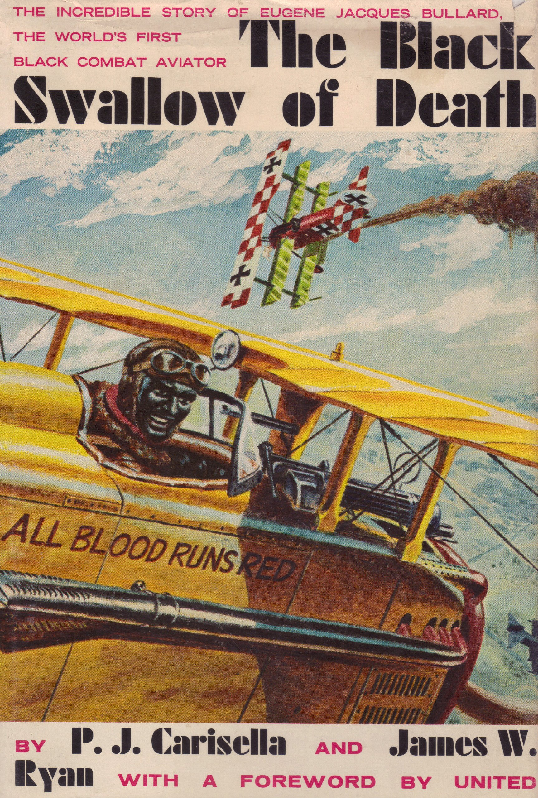 Cover of "The Black Swallow of Death," a book about Eugene Bullard.